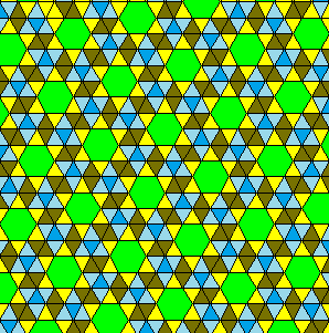 2-uniform tiling, hand-colored from [1]